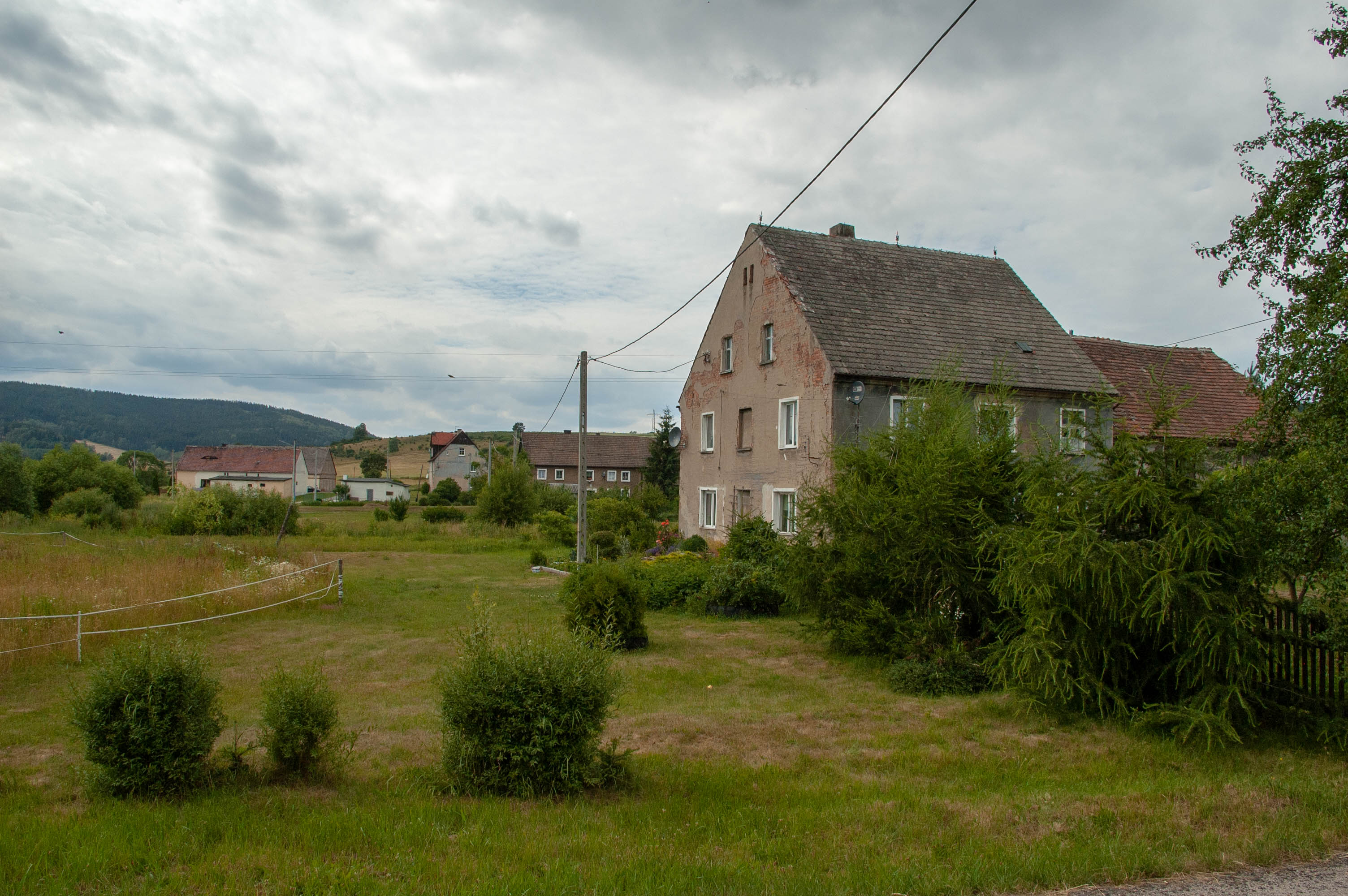 This photograph was created as a part of Wikiexpedition Lower Silesia, a project supported by Wikimedia Poland grant.